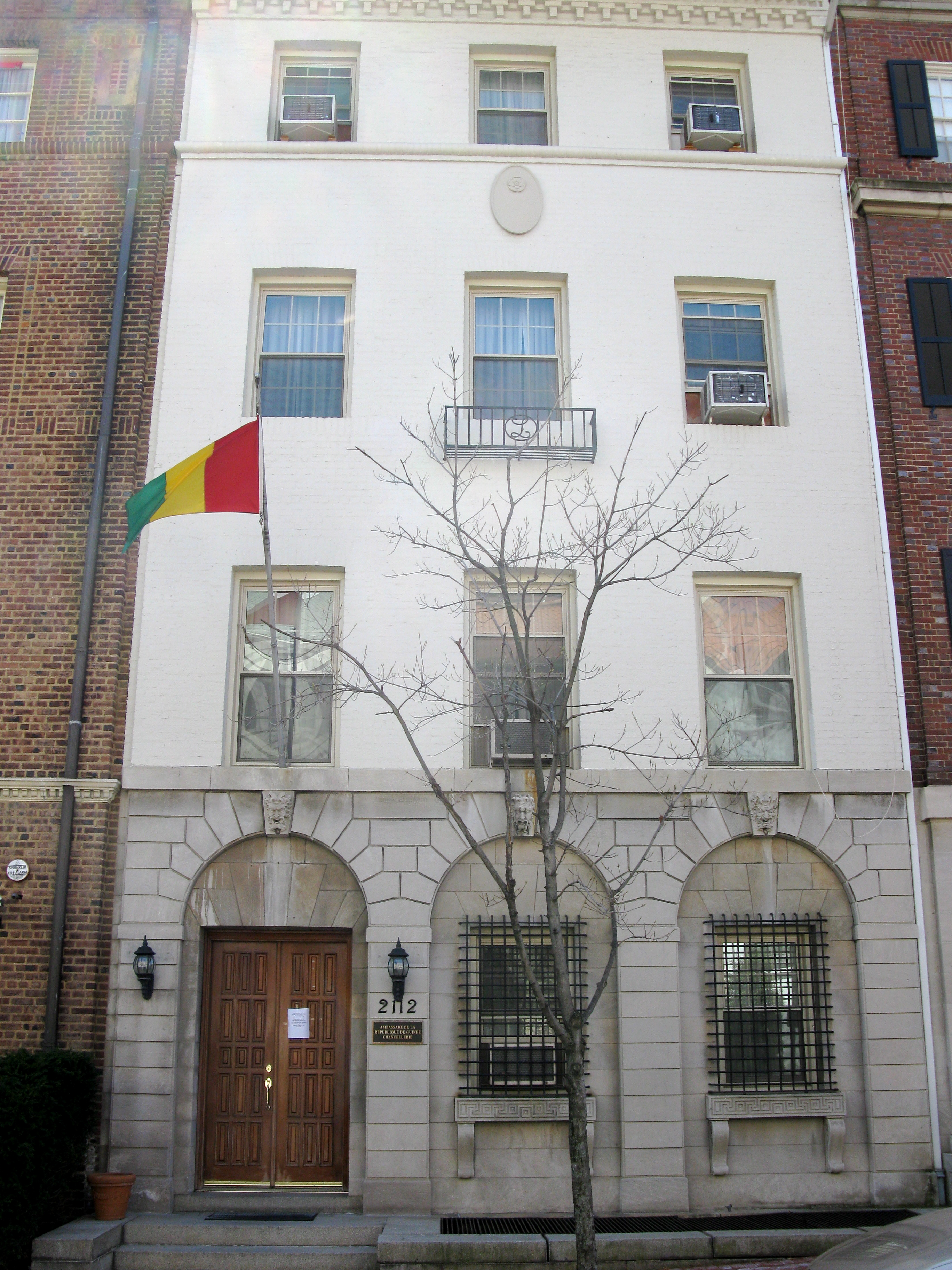 Embassy of the Republic of Guinea in Washington, DC